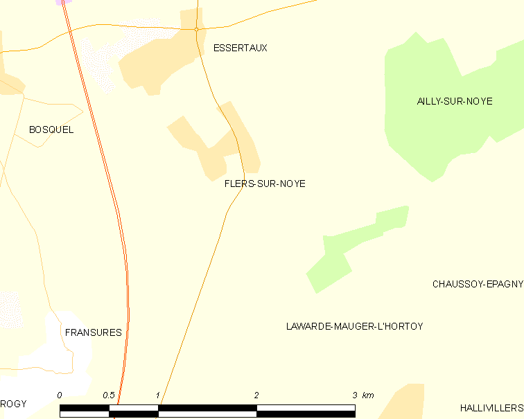 Map of French municipality Flers-sur-Noye